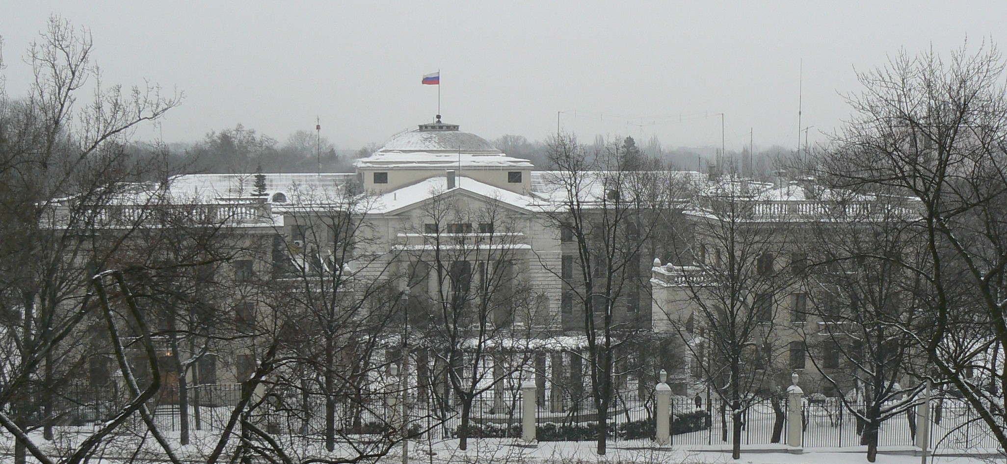 Russian embassy - Spacerowa street side (view from 6th floor of Karat hotel, Spacerowa street)